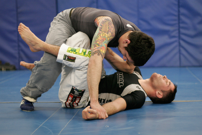 Jiujitiero playing x-guard during roll.